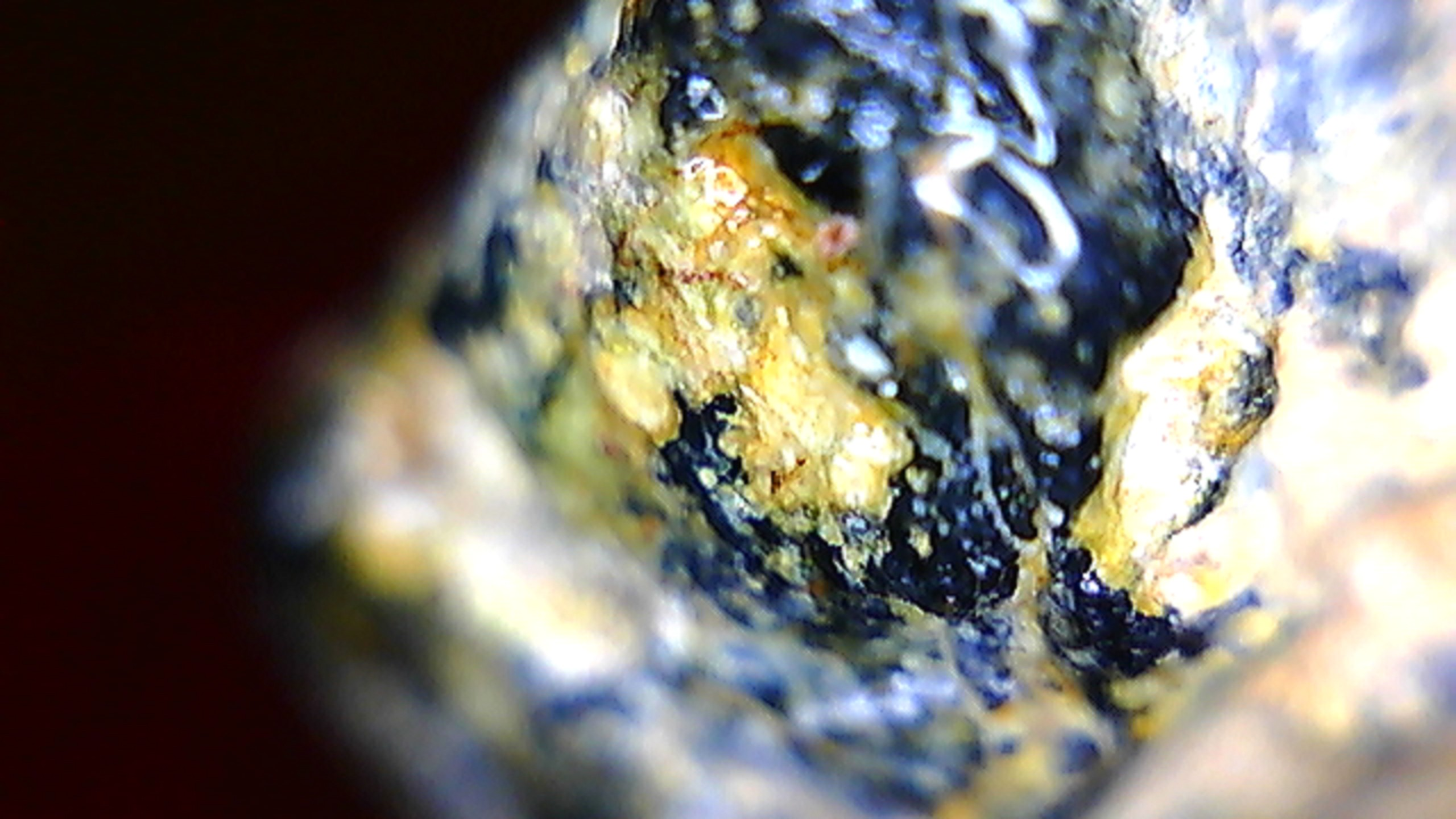 Microphoto of Brockite [(Ca,Th,Ce)PO4·H2O] on Thorite [(Th, U) SiO4]. Field view: 2 x 2 mm. Brockite is covering thorite like as as yellow-brownish thin crust of alteration. From Mogok Township, Distrito Pyin-Oo-Lwin, Division Mandalay, Burma (Myanmar). Raúl Jorge Tauber Larry´s collection.